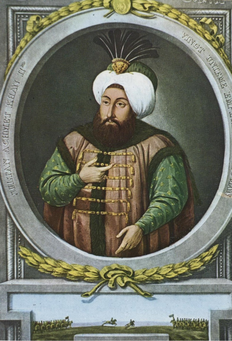 Ahmed II